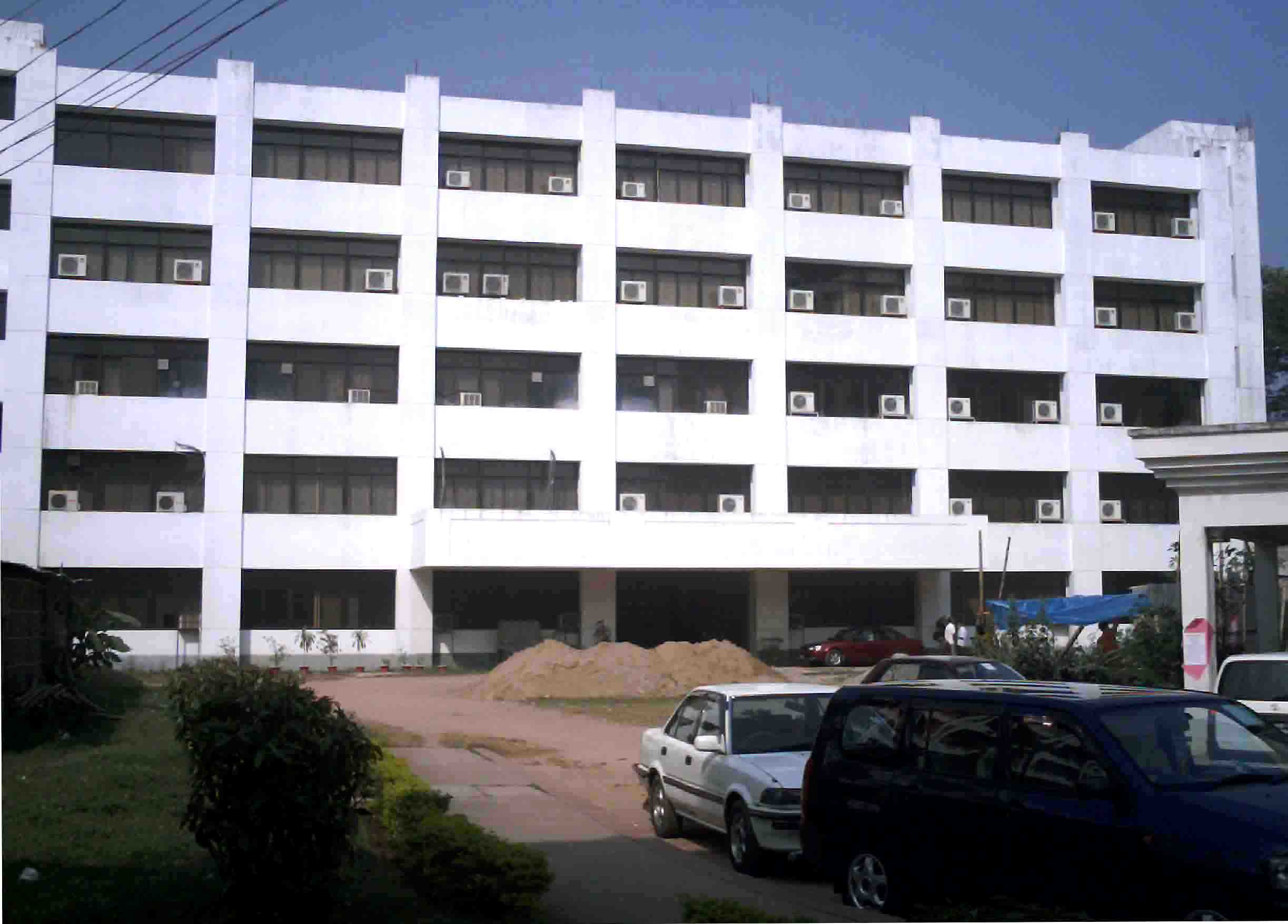 Center for excellence building university of dhaka, Bangladesh.